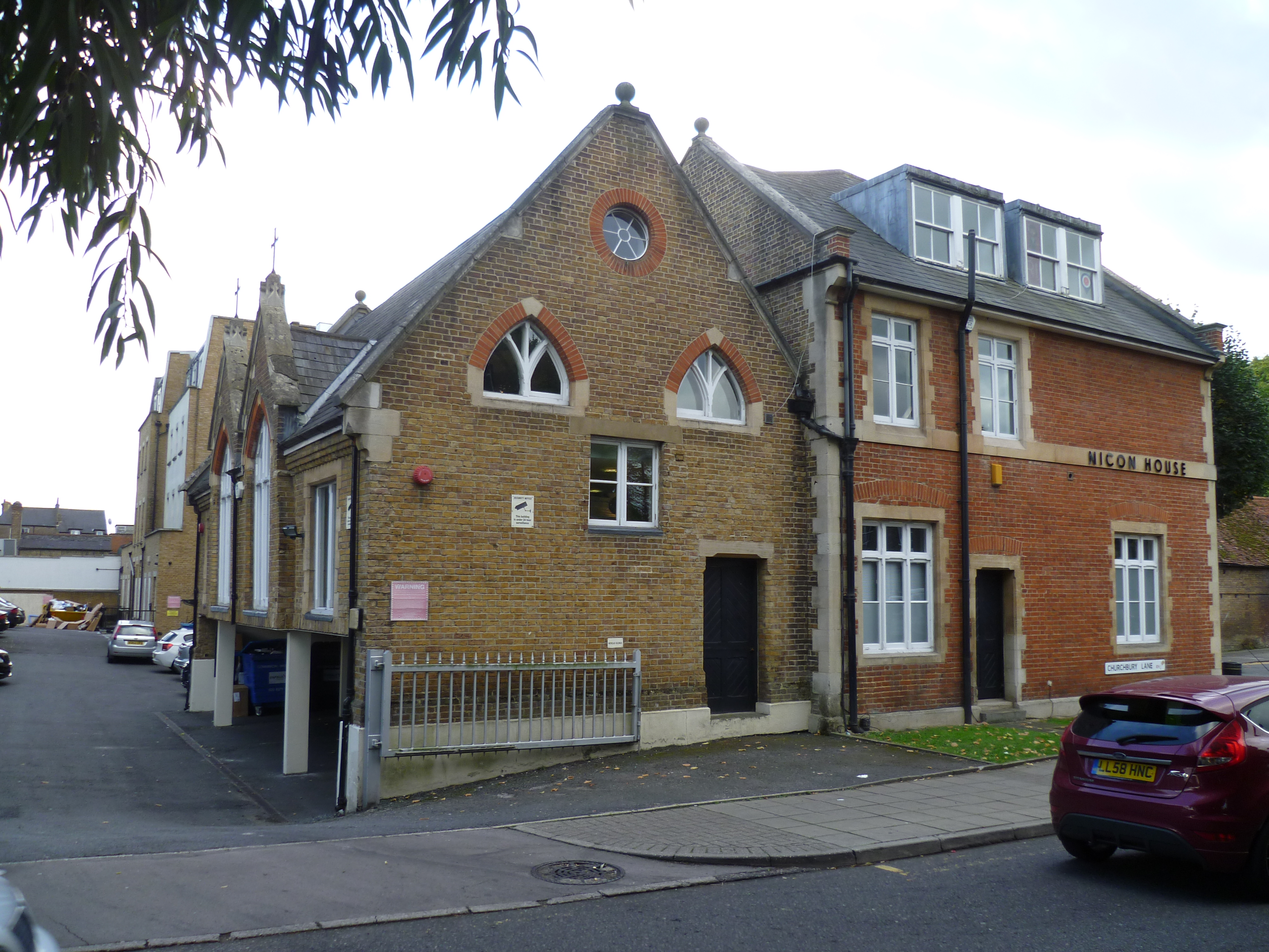 Nicon House, Silver Street, former Church School of Industry